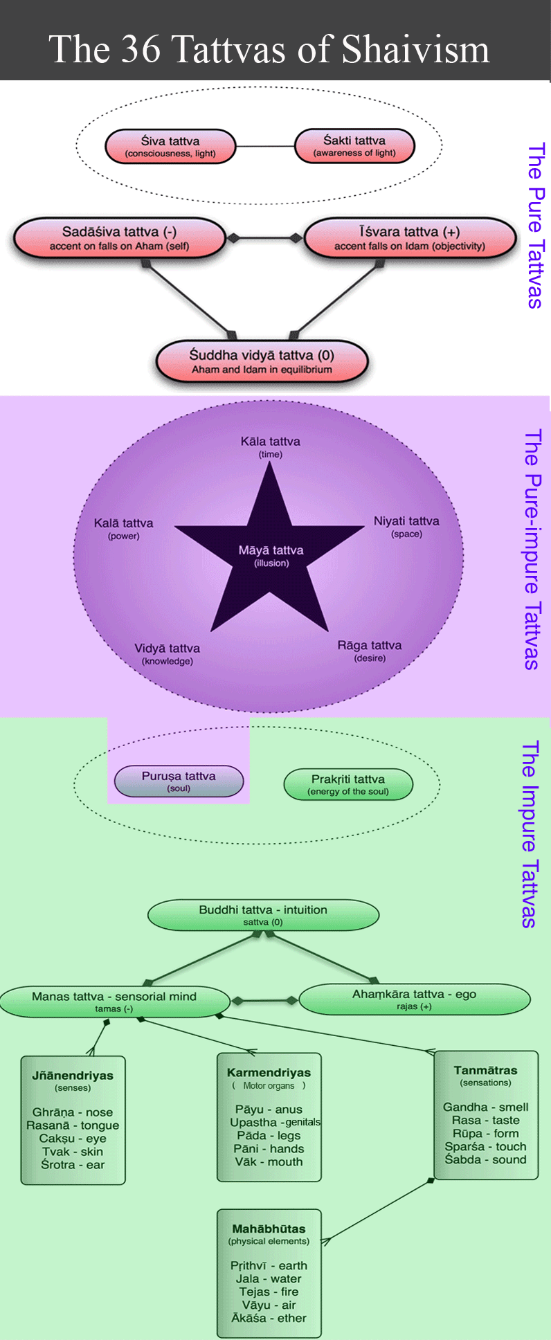 The detailed figure of Thirty-six tattvas in Shaivism.